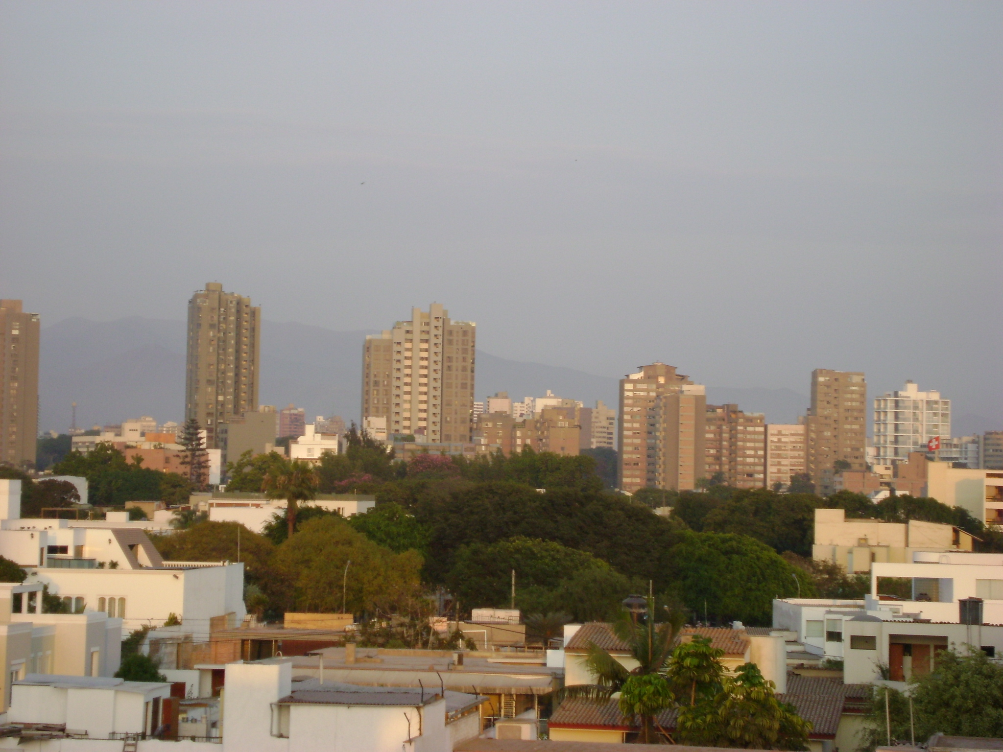 Panoramic photo of San Isidro Distric (Lima).